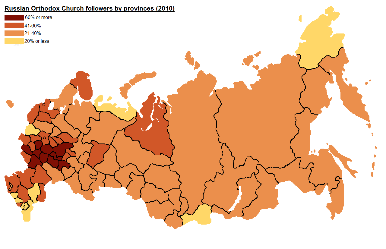 map, article of Kommersant